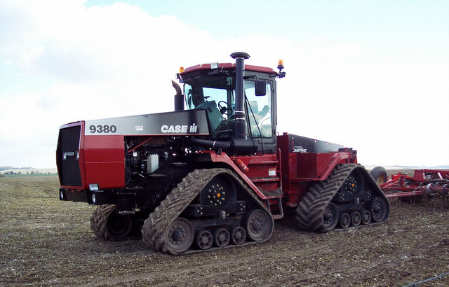 Case IH 9380 tractor, near to Wilton, Wiltshire, Great Britain. This impressive tractor was in the field beside the windmill.